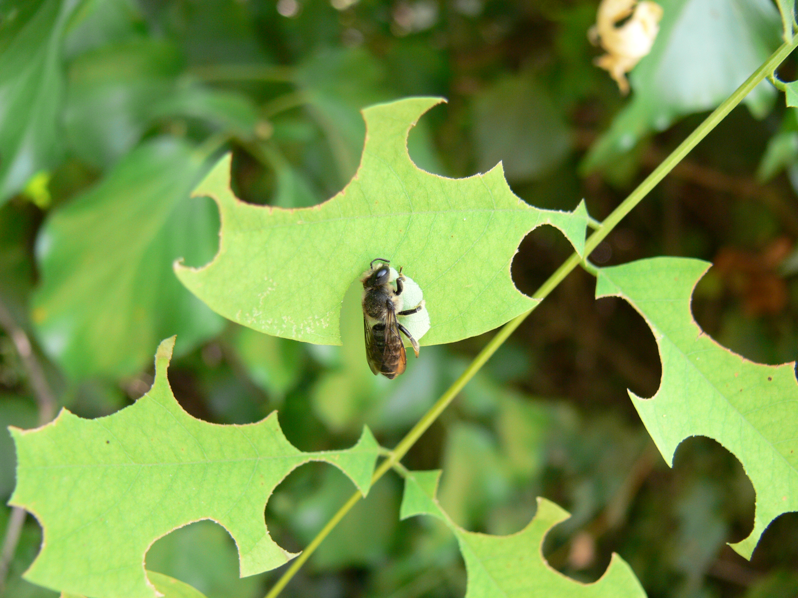 Megachile rotundata, or « Leaf-cutting bee ».